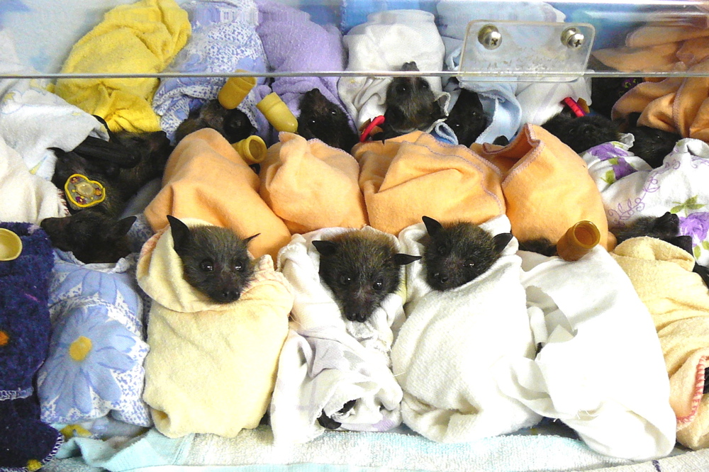 A crib full of 2‒3 week old baby grey-headed flying-foxes in care of Wildcare Australia at The Bat Hospital.